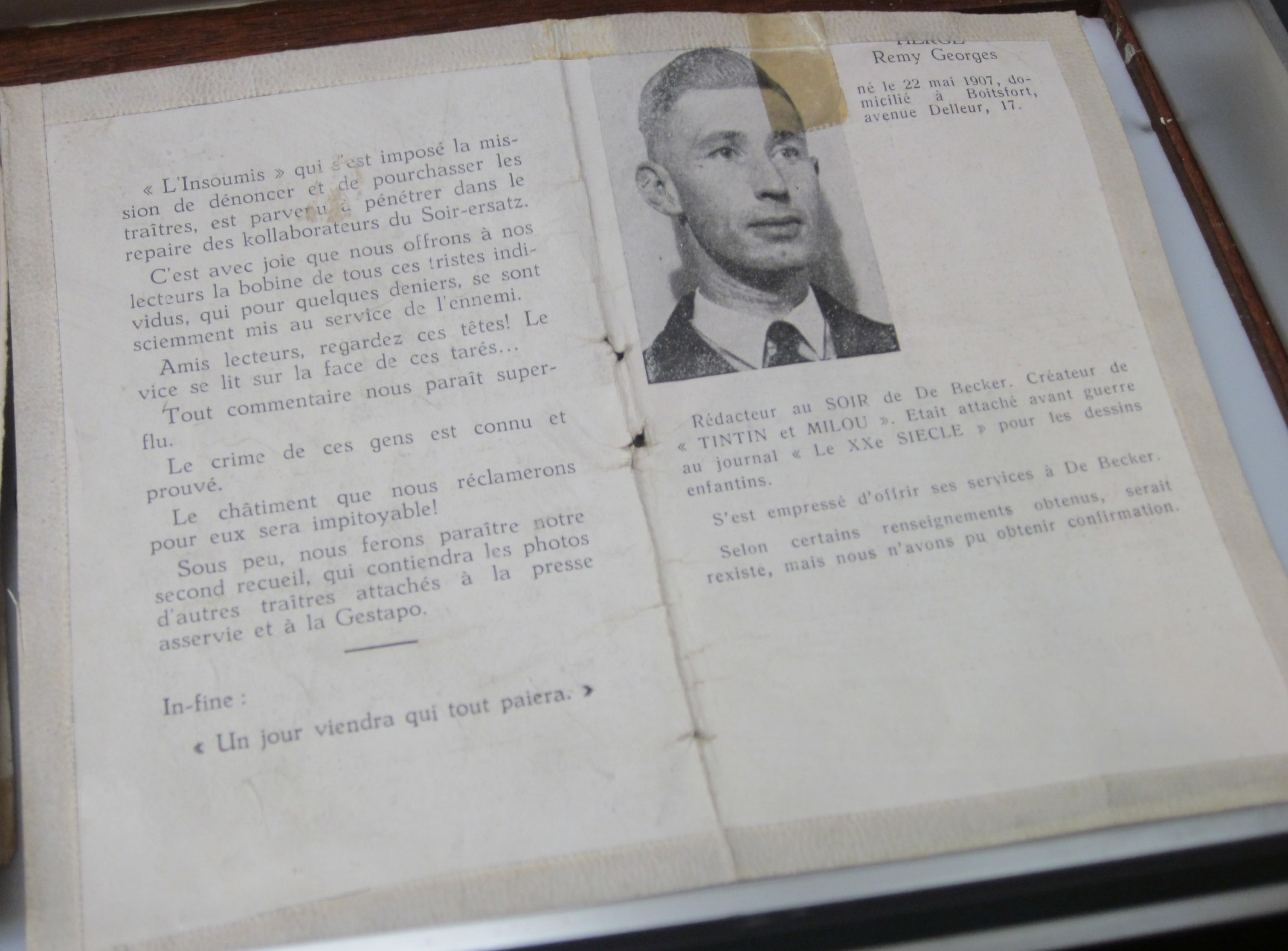 Section from the book Galerie de Traitres ("Gallery of Traitors") published clandestinely by the Belgian resistance group "L'Insoumis". The page open deals with Georges Remy¨ [sic] (actually Georges Remi, aka Hergé), condemned as a collaborator. “ "L'Insoumis", charged with the mission to denounce and hunt down traitors, has managed to penetrate into the lair of the collaborators in the ersatz-LE SOIR... Friends, readers, look at these faces!...The crimes of these men are known and proved... ” The text also mentions that Remy [sic] is "According to certain information obtained, a Rexist, but we have not be able to find proof." In the National Museum of the Resistance, Anderlecht.